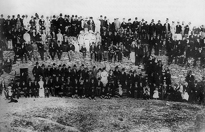 Sean Beattie's, "Ireland in Old Photographs - Donegal, Bigger/McDonald Collection. Workers at the Grianan of Ailech during reconstruction.